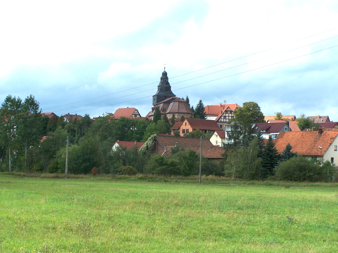 Panorama seen from riverside.